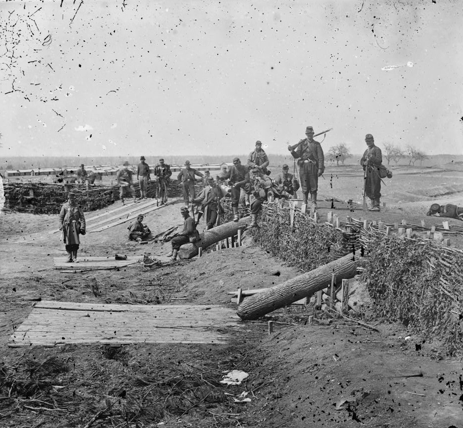 [Group of Federal soldiers in Confederate fort on heights of Centreville with Quaker guns]